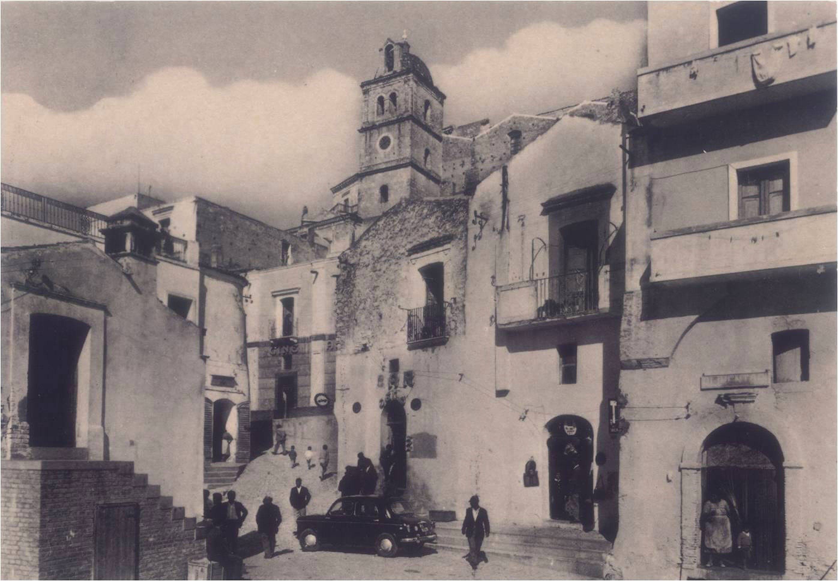 Old town of Craco in 1960, few years before the abandonment due to natural disasters